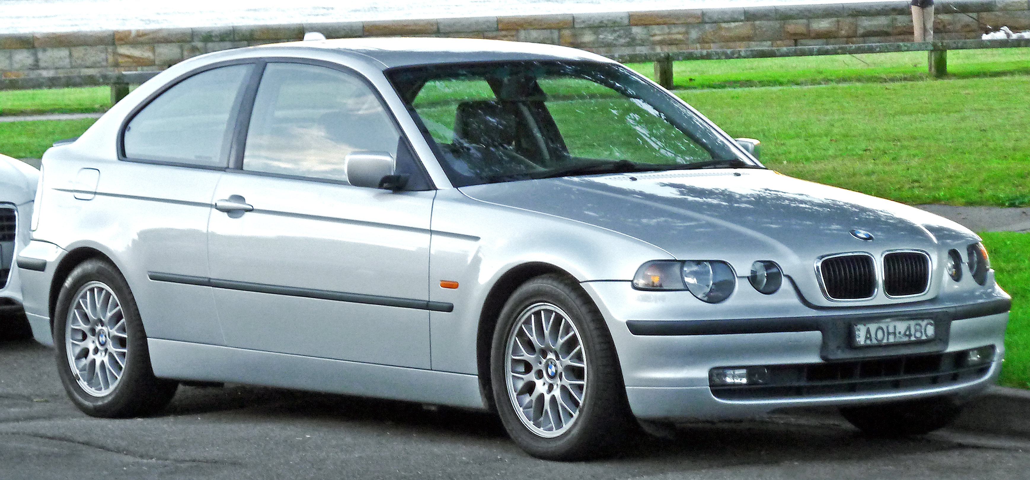 2003 BMW 318ti (E46 MY02) hatchback. Photographed in Double Bay, New South Wales, Australia.